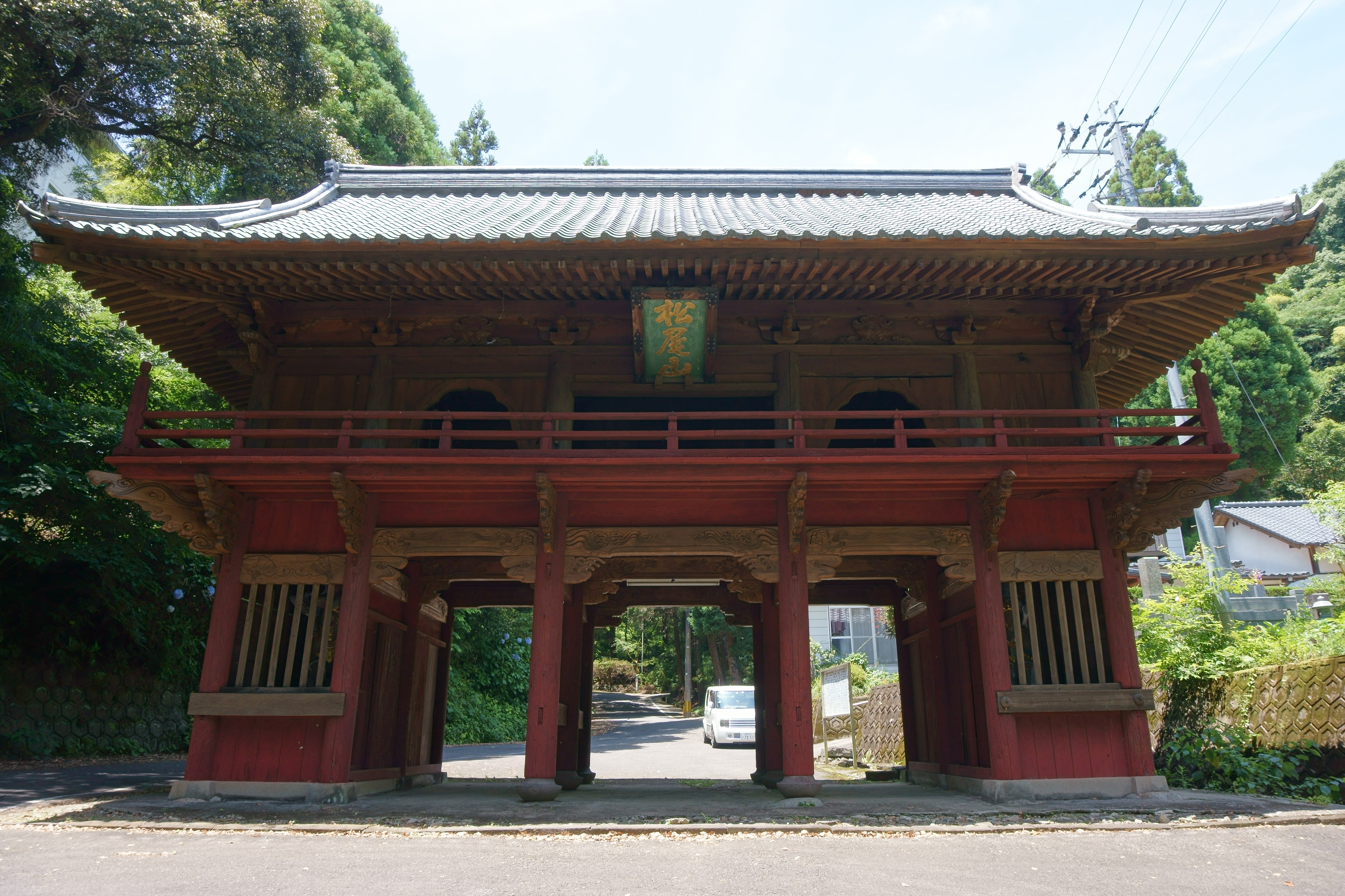 Niōmon(gate) of Kōshō-ji Temple.